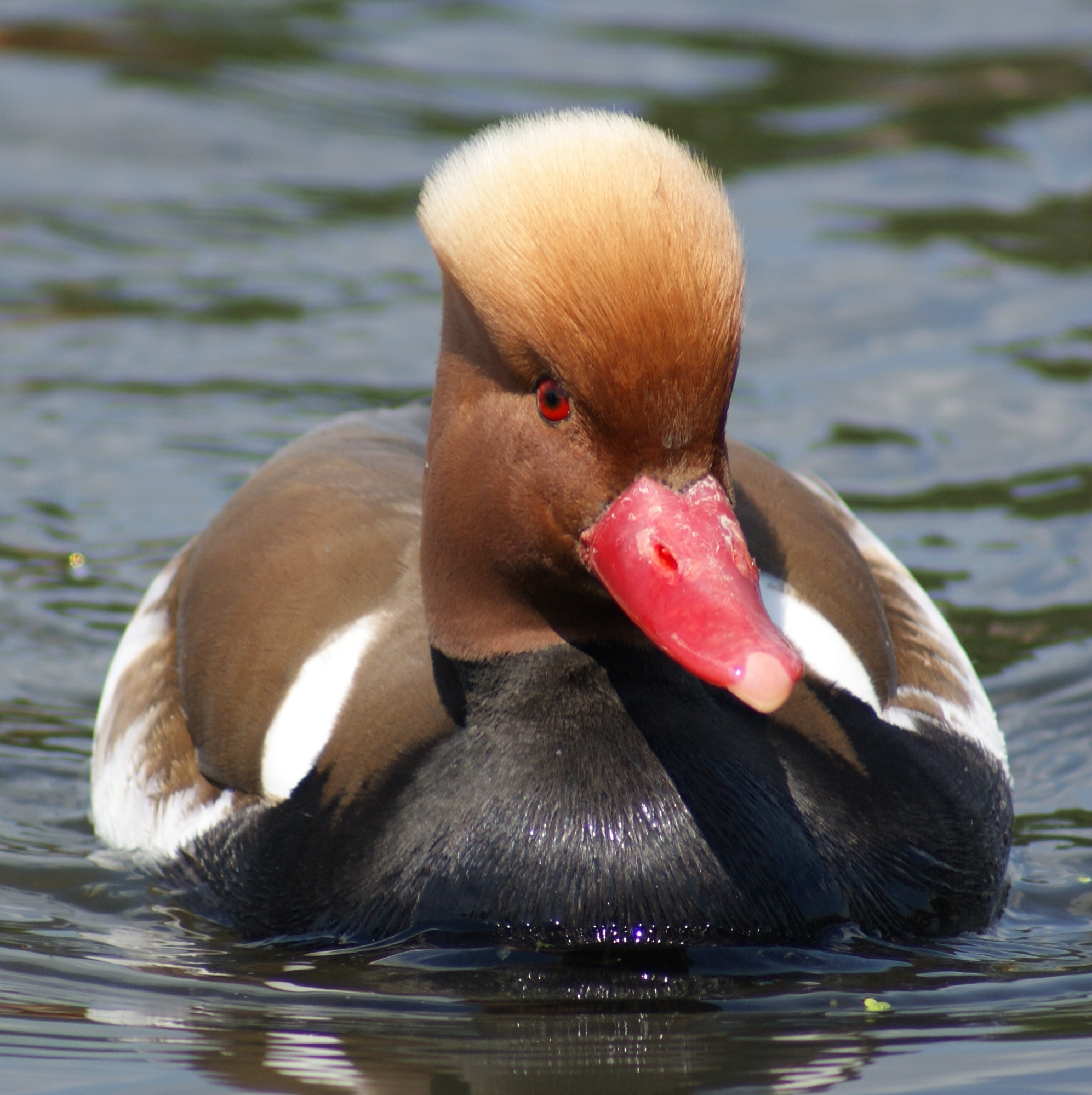 Seen on the Heron Lake in Bushy Park near Hampton Court Palace.